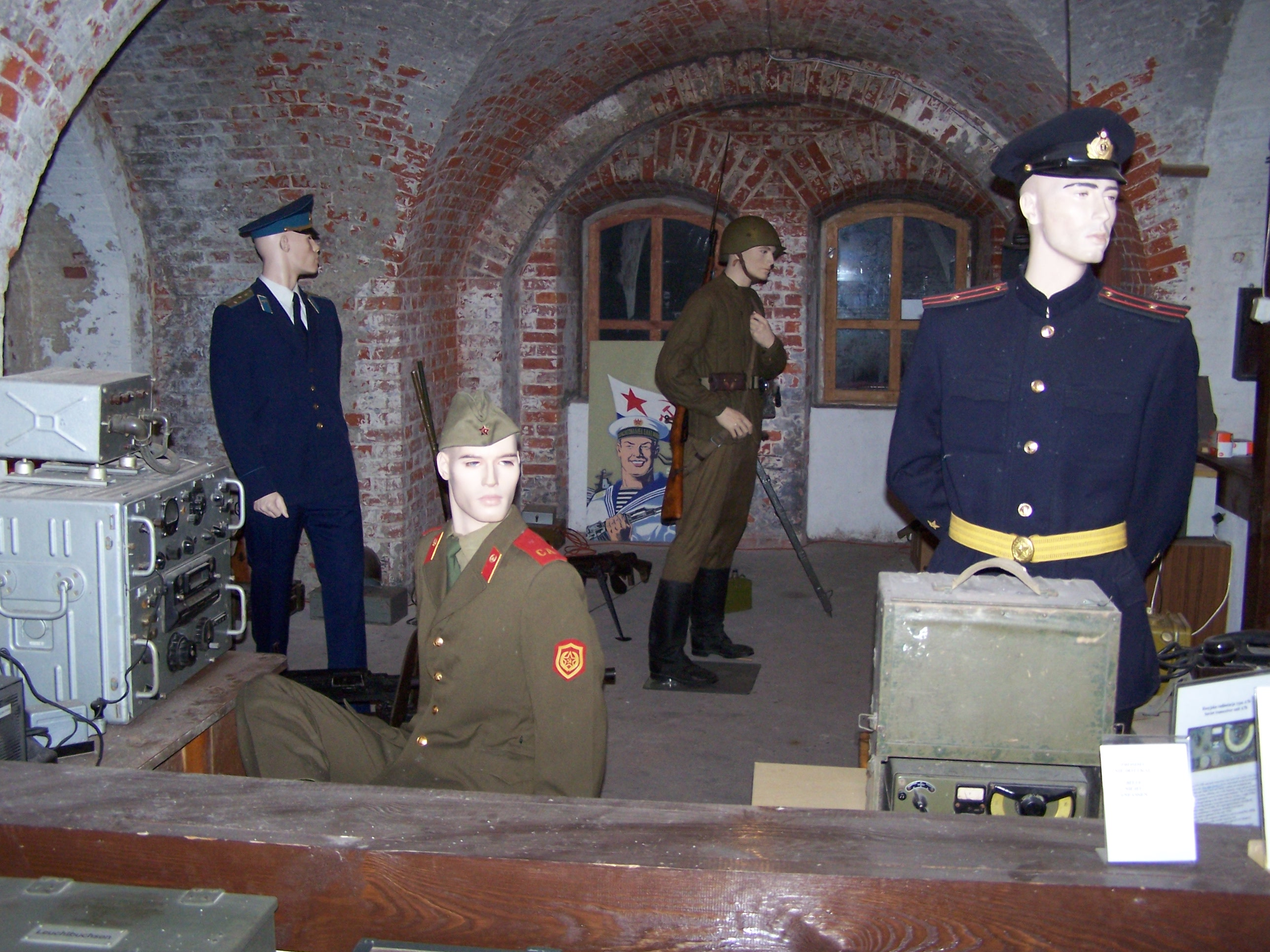 Photo from Fort Zachodni